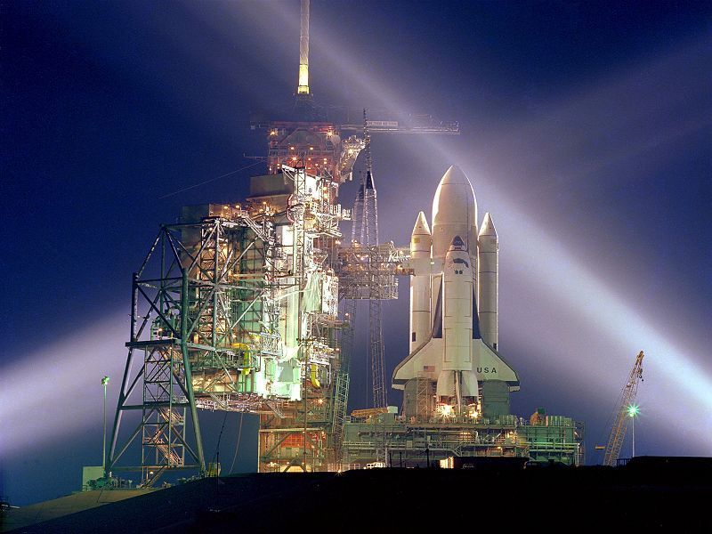 Space Shuttle Columbia (mission STS 1)